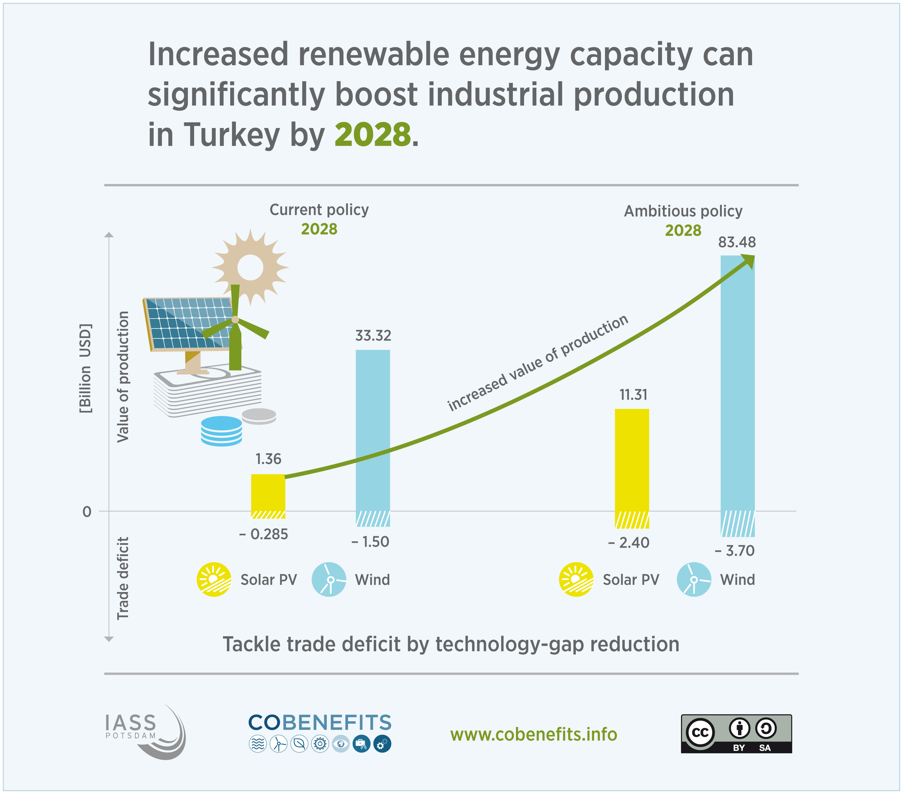 Current and ambitious policies for wind and solar power to 2028 with increases in industrial production in Turkey